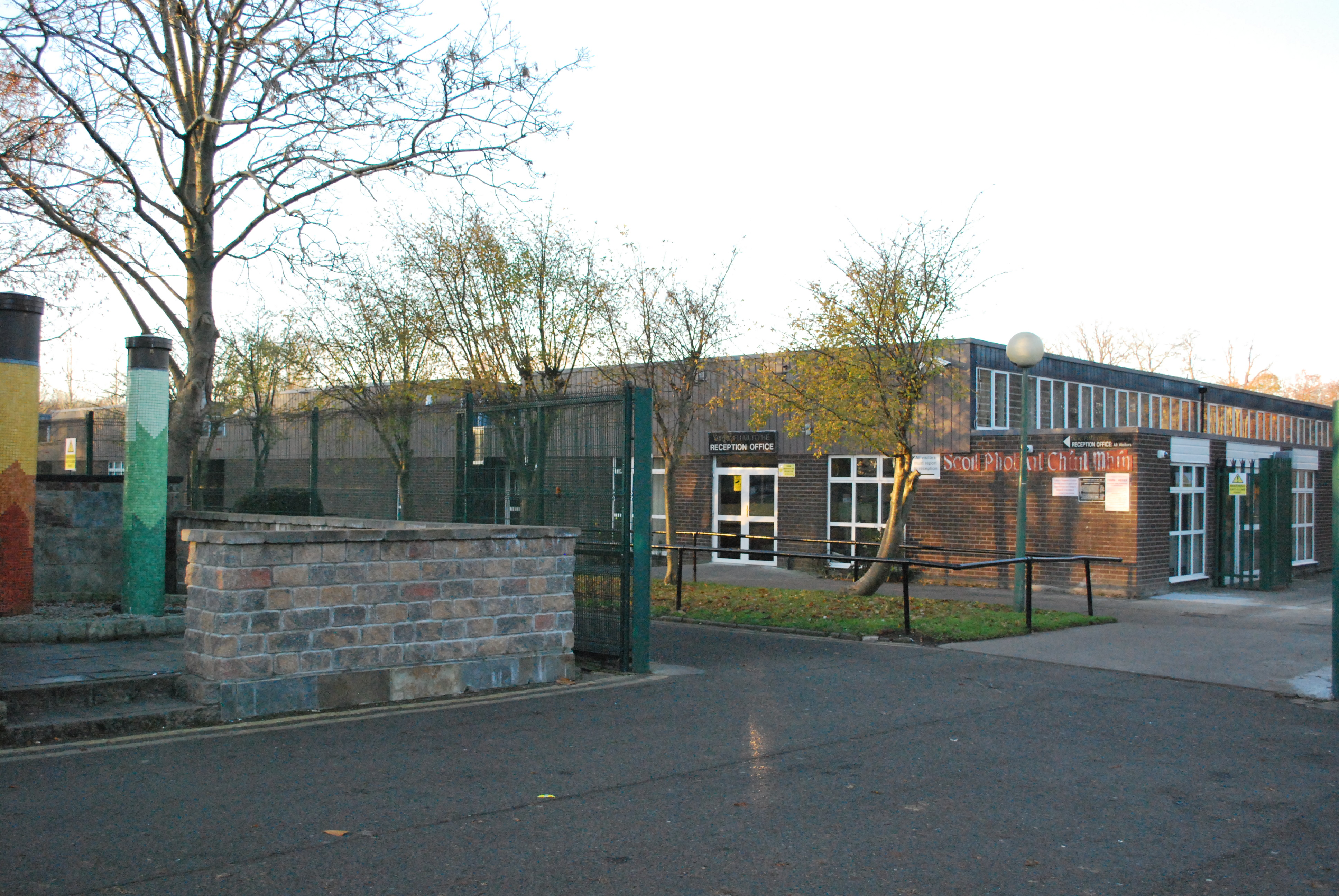 View of main enterance into Coolmine Community School